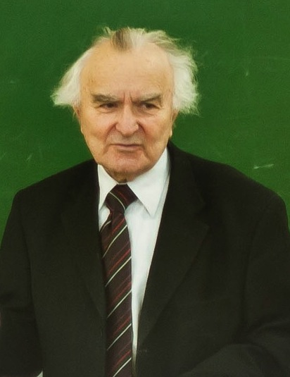 Mikhail Abramovich Taitslin leads a lecture at TSU students